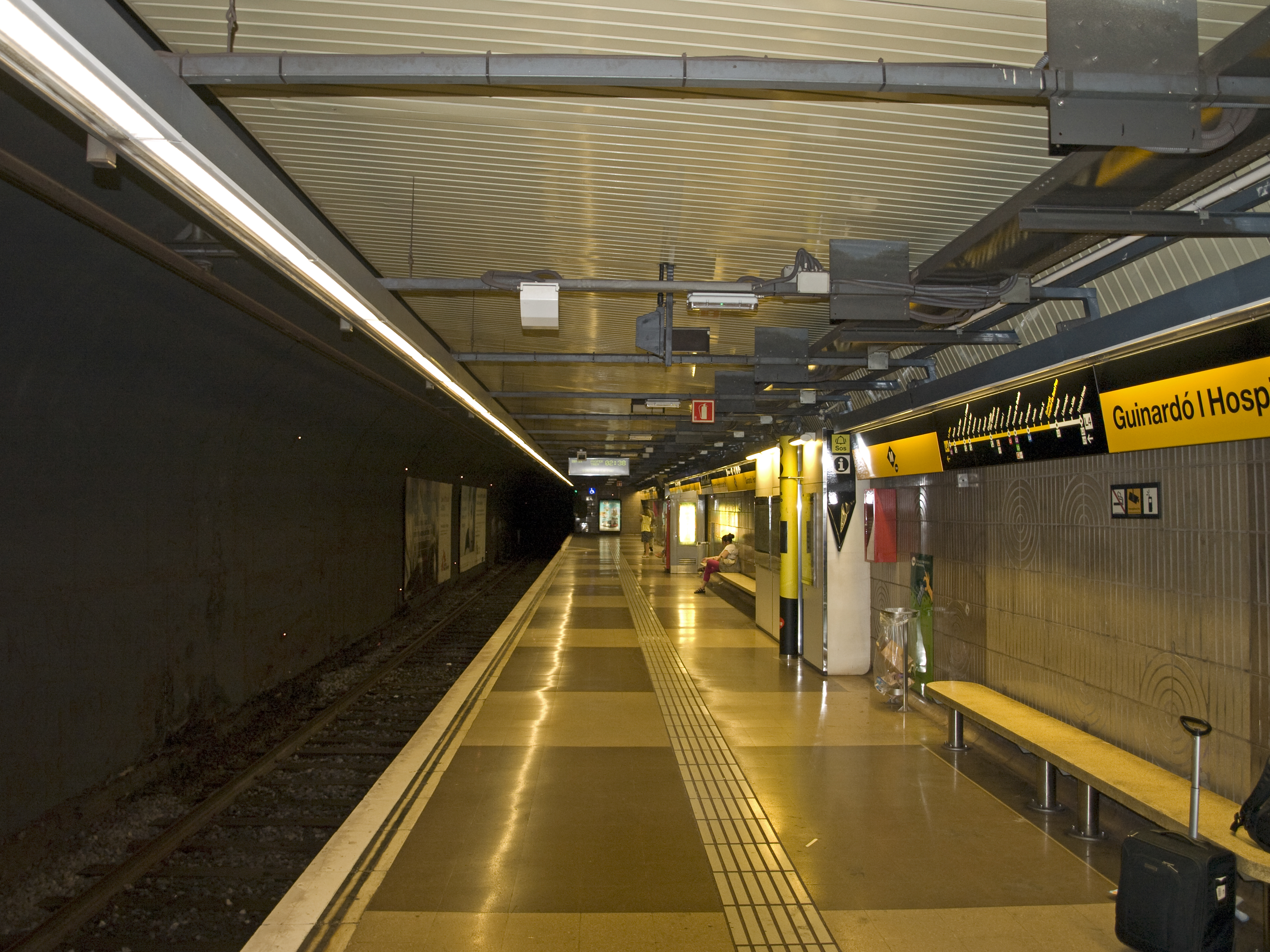 Guinardó - Hospital de Sant Pau station, L4 line, southbound platform, Barcelona Metro